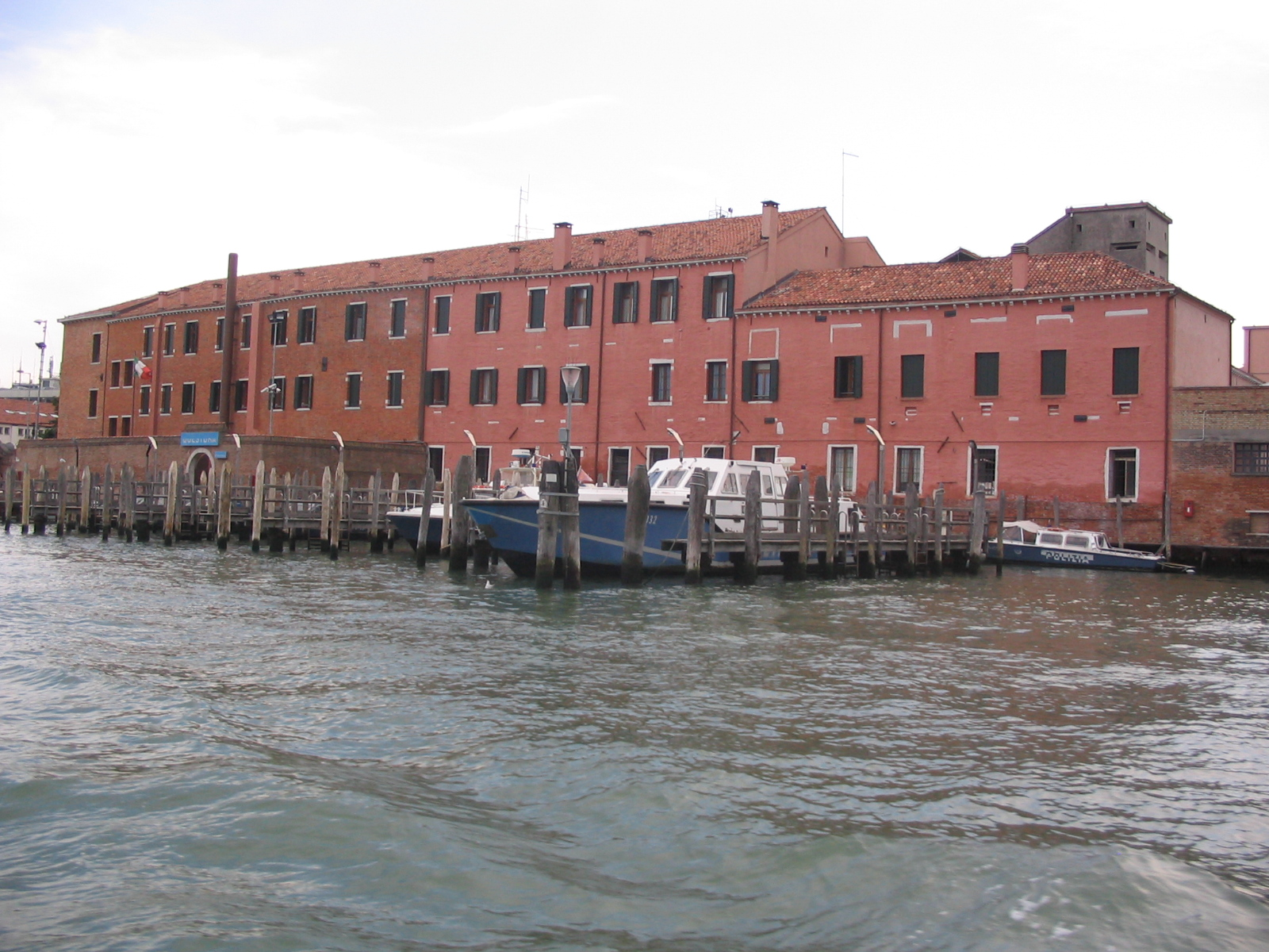 Police station in Venice